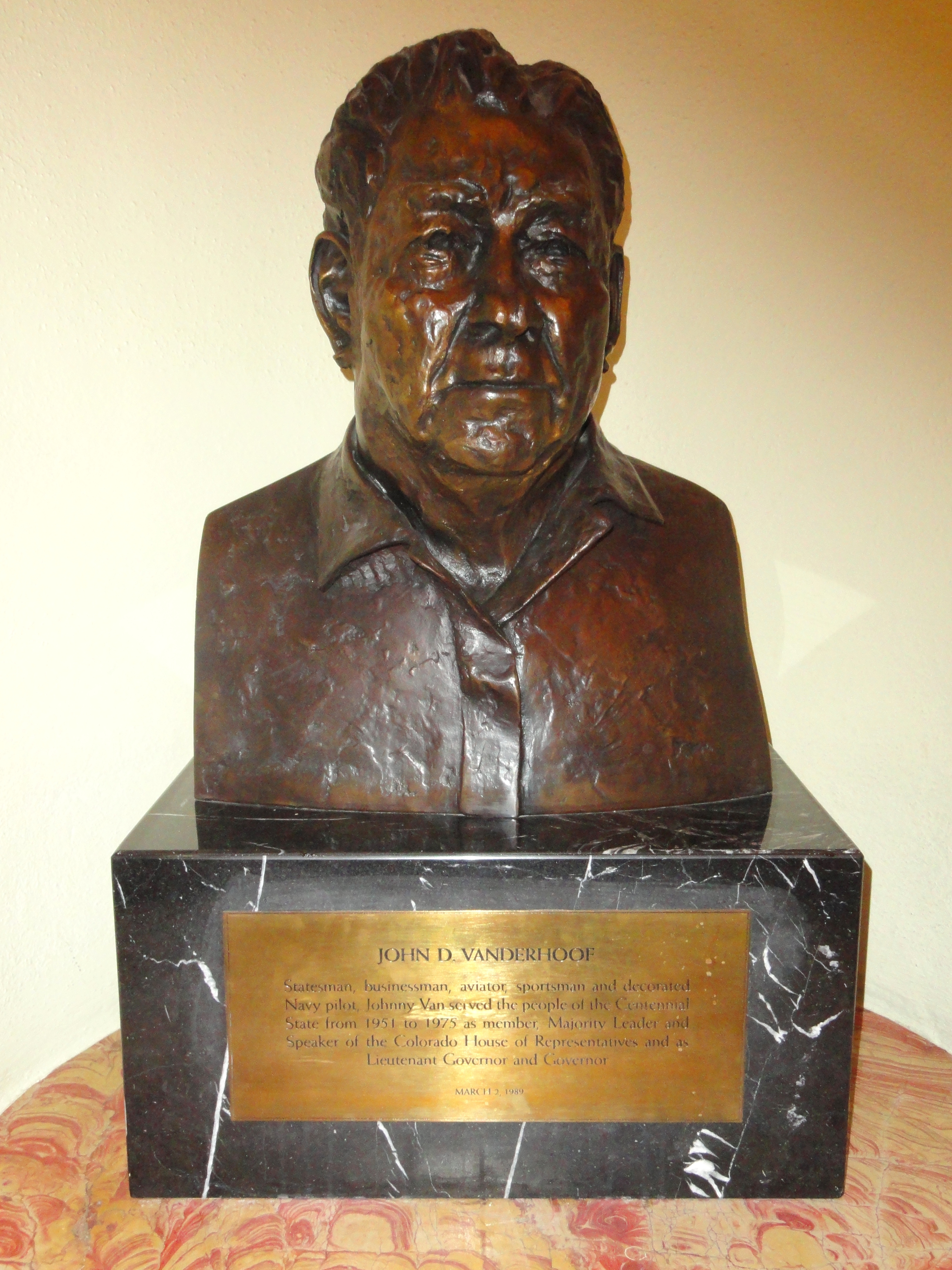 Statues in the Colorado State Capitol in Denver, Colorado, USA.